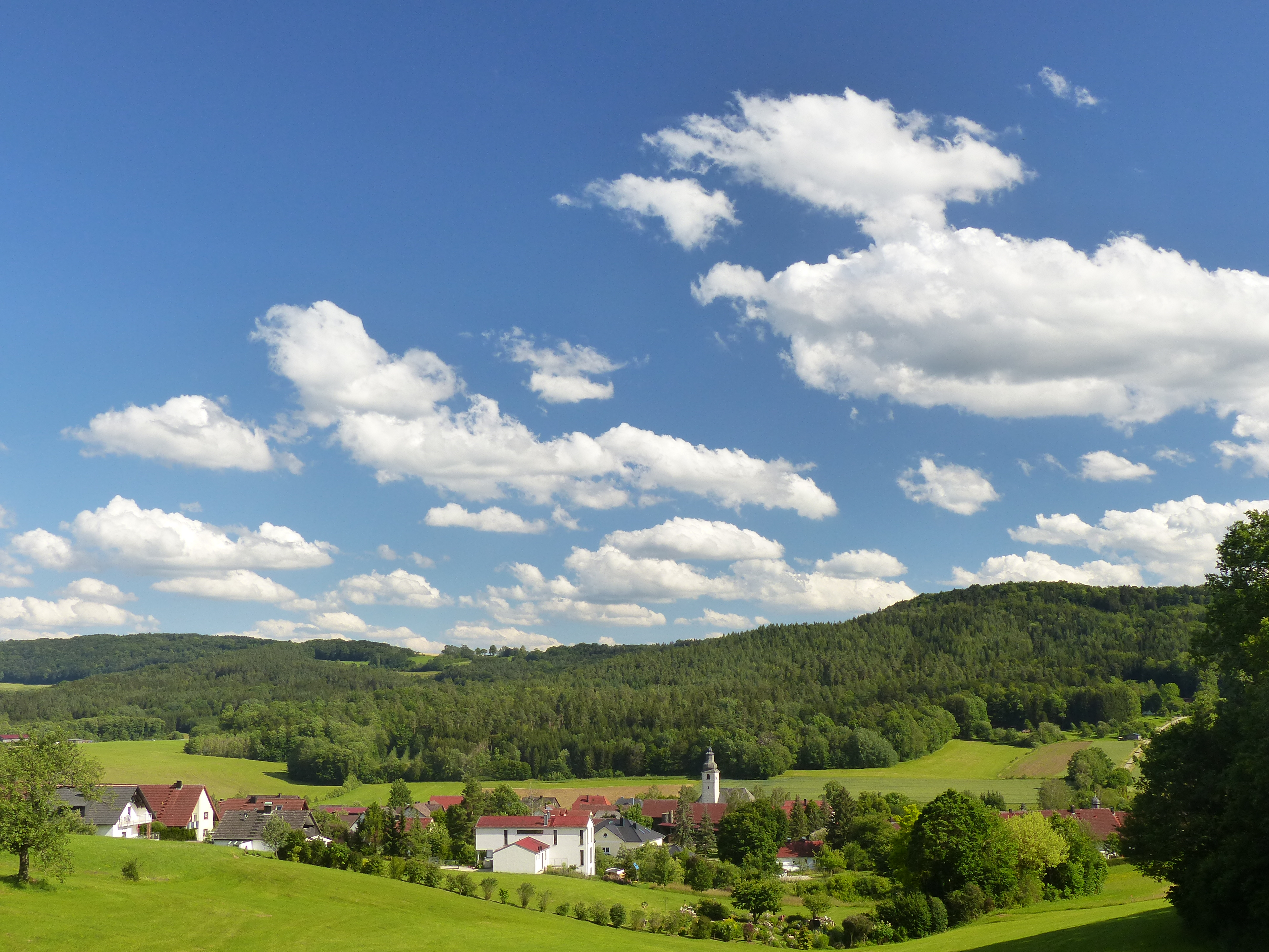 The parish village Kirchahorn, a district of the municipality of Ahorntal.